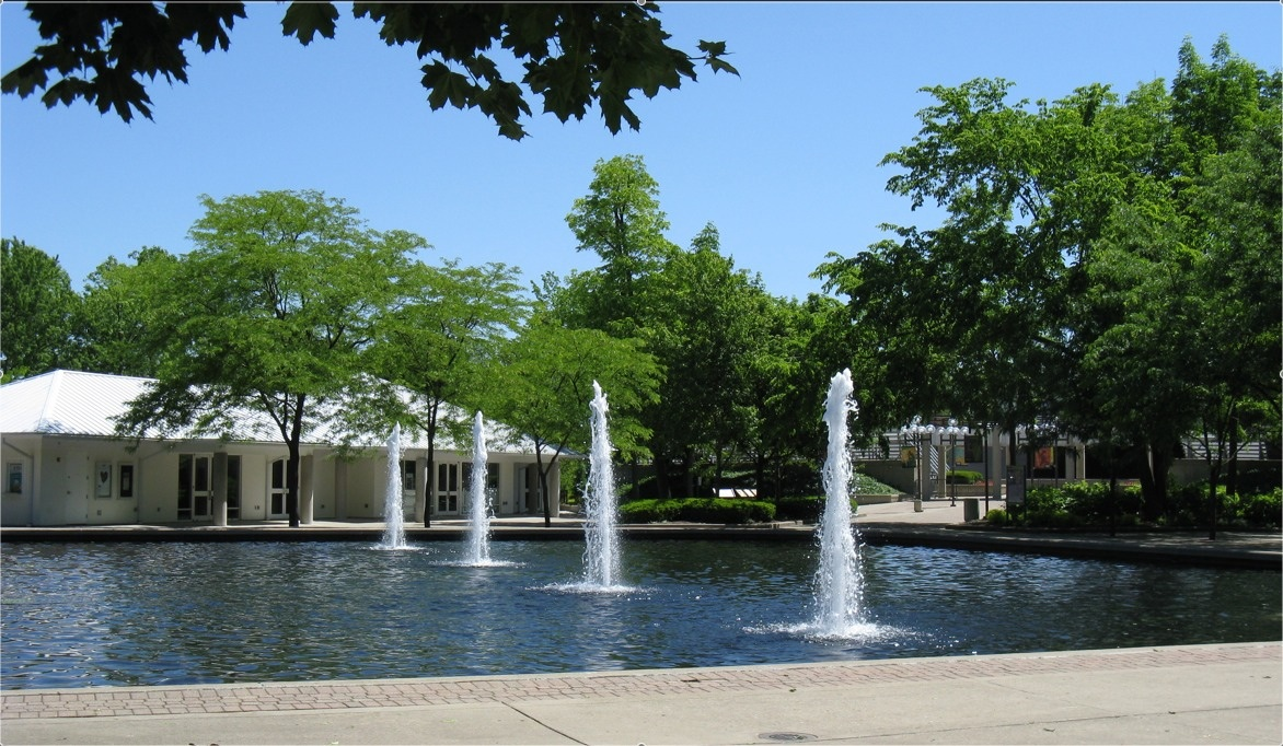 The fountains and administrative building for Fraze Pavilion in Kettering, Ohio